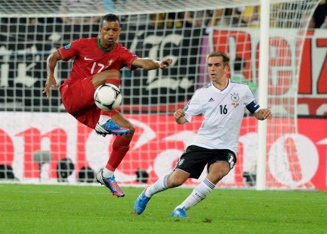 Match between Germany and Portugal during UEFA Euro 2012 that took place in Lviv. Final score was 1:0 (Gómez).